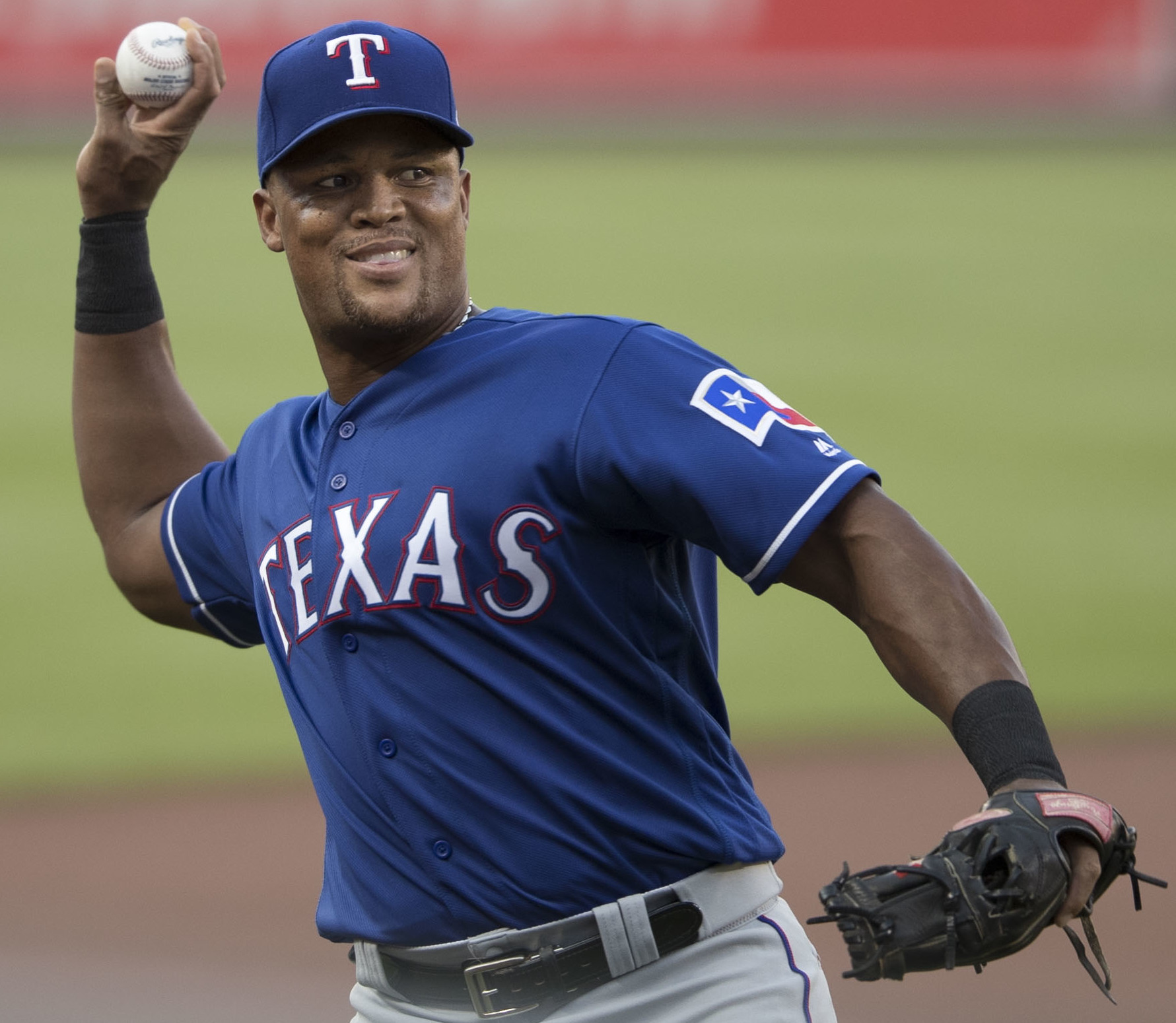 Rangers at Orioles 7/19/17